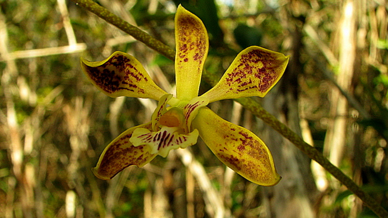 Encyclia oncidioides (Lindl.) Schltr.